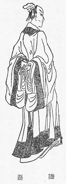 Portrait of Lu Xun from a Qing Dynasty edition of Romance of the Three Kingdoms.